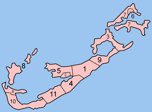 Map of the parishes of Bermuda, numbered in English (native language) alphabetical order. Devonshire Hamilton (city) Hamilton (parish) Paget Pembroke Saint George (city) Saint George's (parish) Sandys Smiths Southampton Warwick